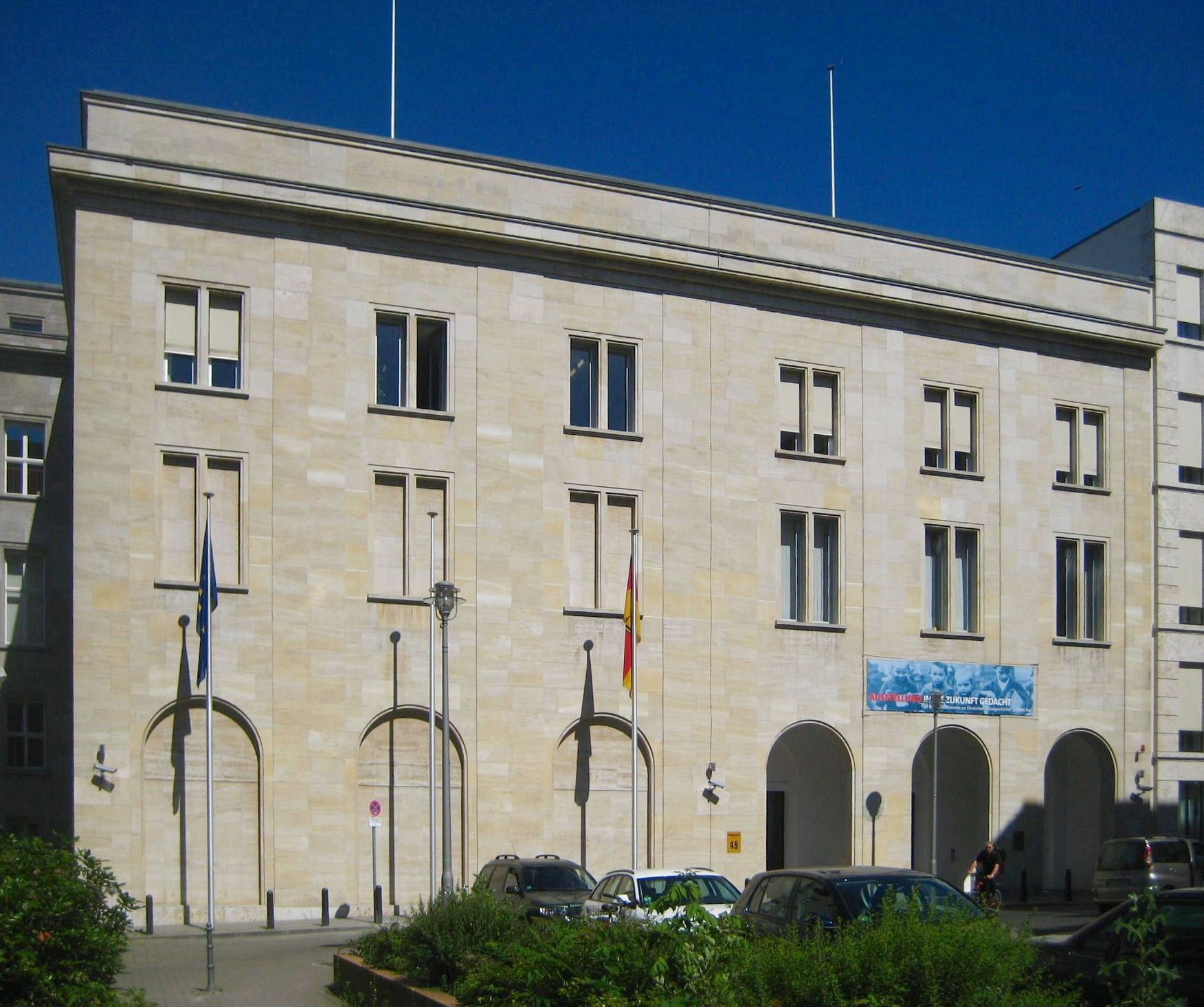 Main entrance of the German Federal Ministry of Labour and Social Affairs, Wilhelmstraße No. 49, in Berlin-Mitte. It was built in 1885 as Court Marshall House to the neighboring Palais Prinz Leopold (which has not survived). In the 1930s, it was integrated into the complex of the newly erected Reich Ministry of Public Enlightenment and Propaganda.